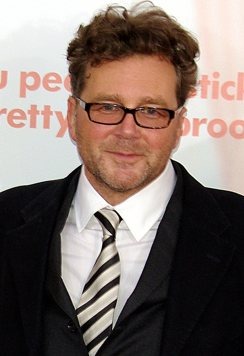 Director Kirk Jones at the 2012 premiere of What to Expect When You're Expecting in New York